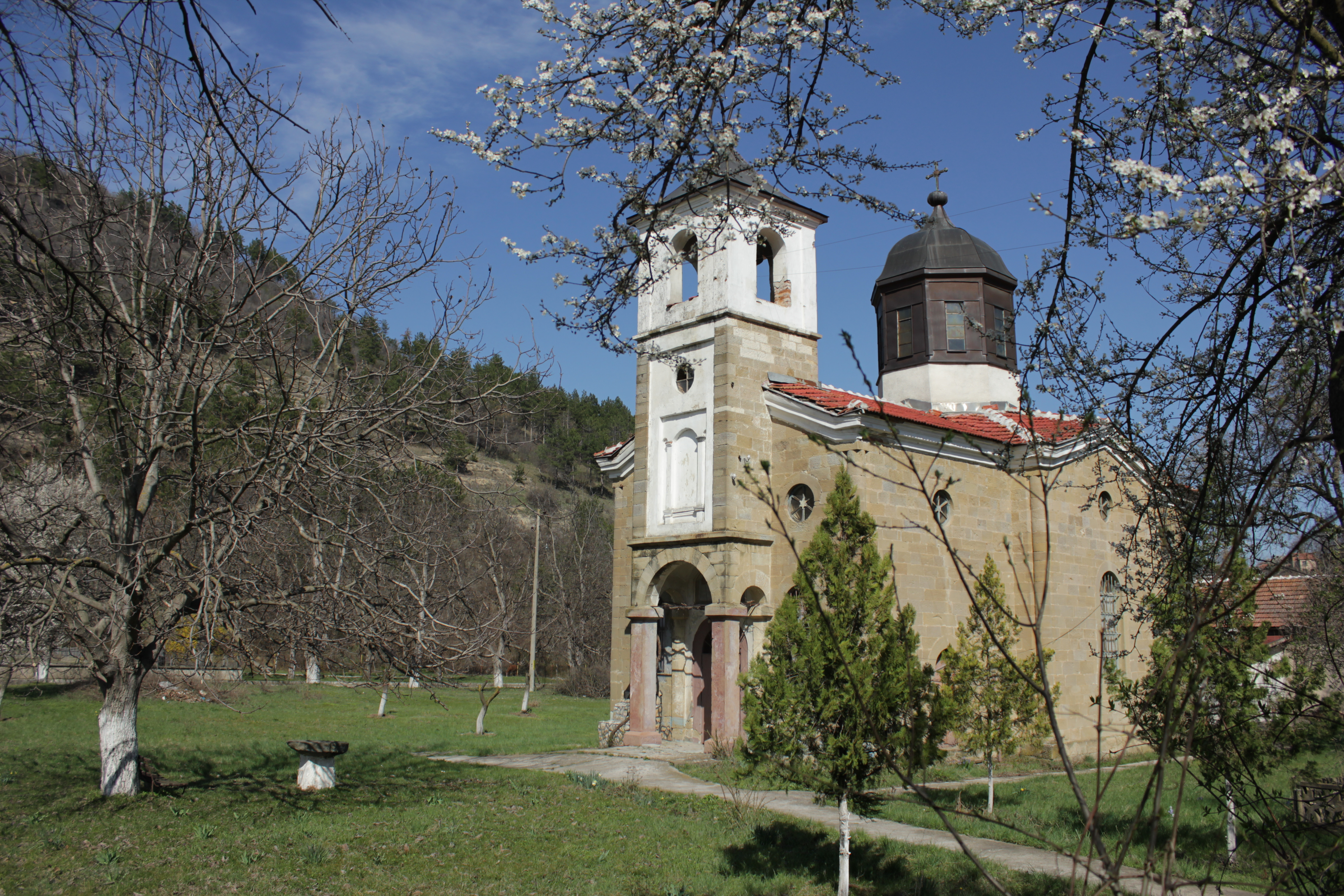 Saint George Church in Reselets village, Bulgaria